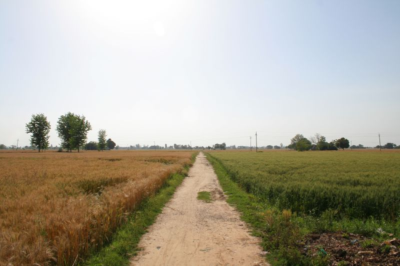 Farms, fields, agriculture in India Rural life, villages